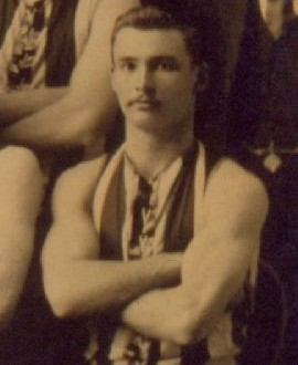 Photograph of Arthur Gibbs in 1896.